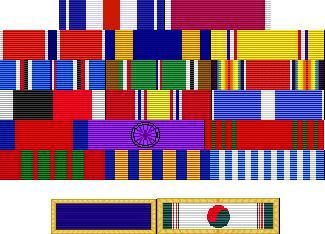 cribbons of general robert sink